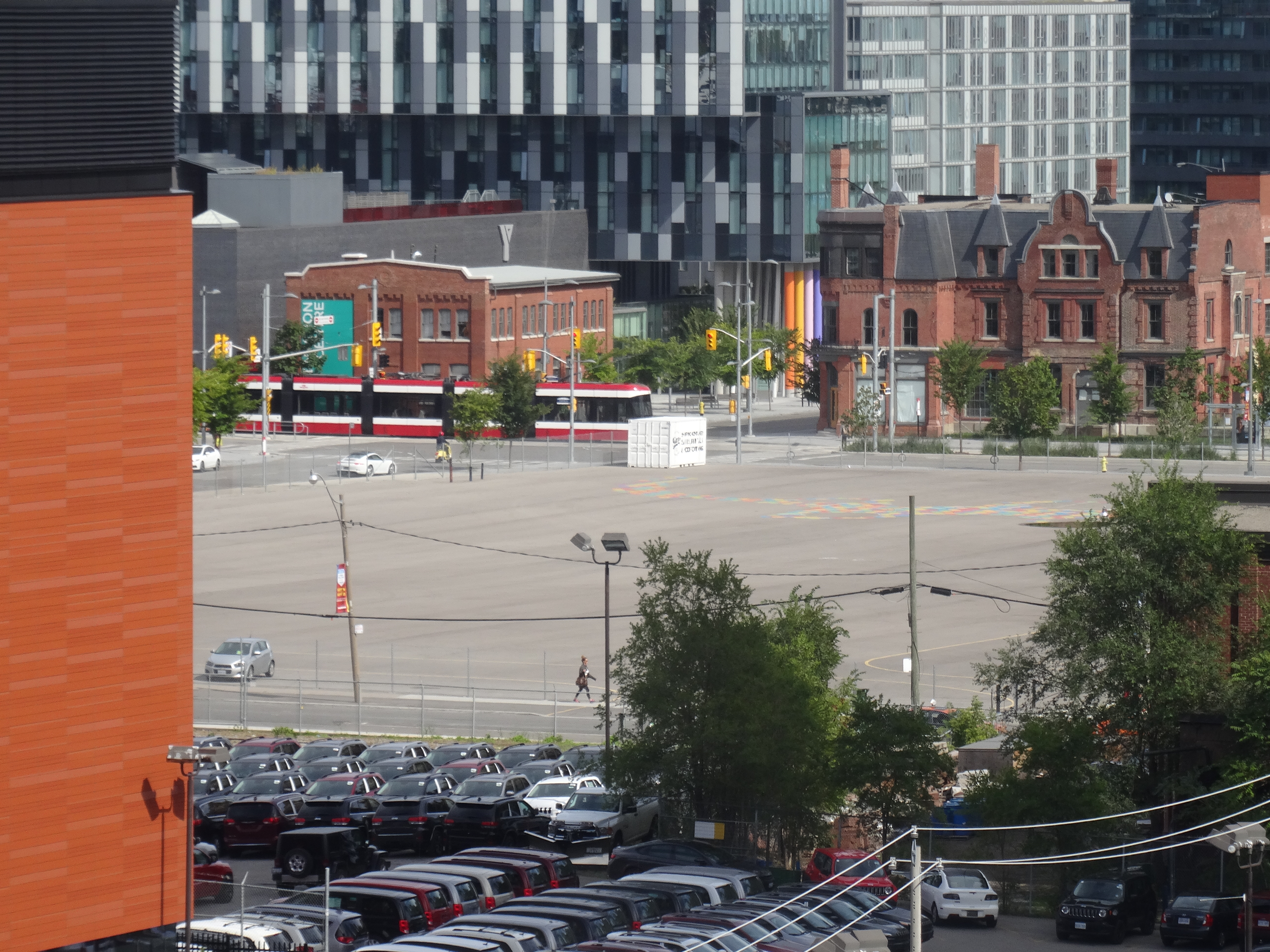 A flexity streetcar on Charry Street, 2016 09 28 -a.jpg